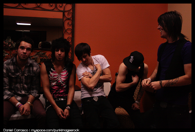 LoveHateHero